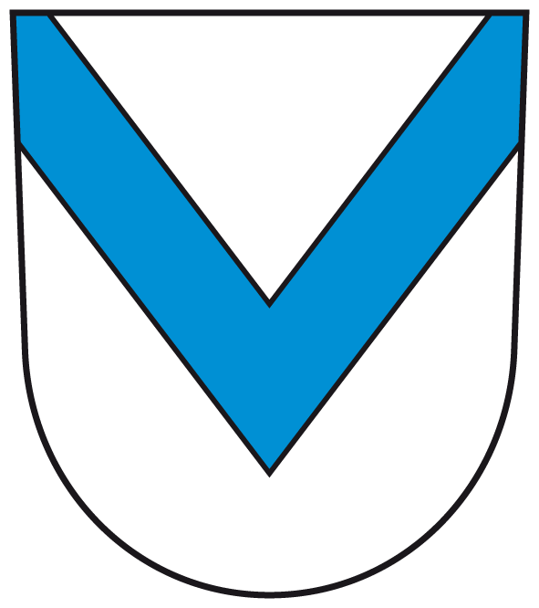 Coat of arms of Ockenheim